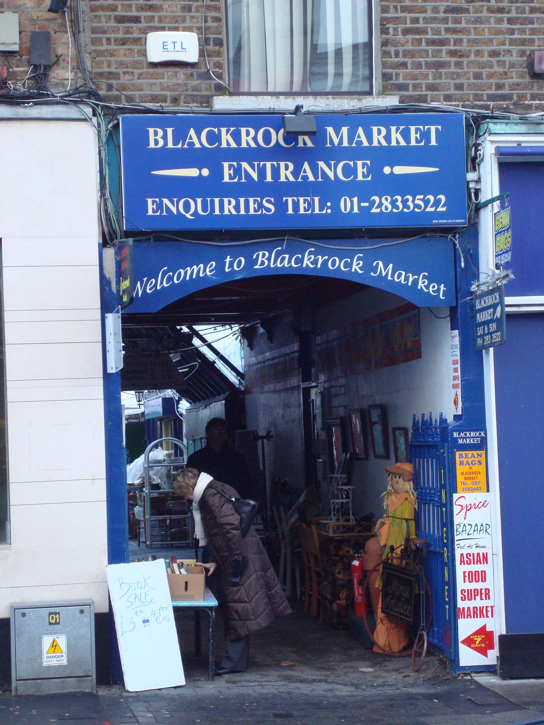 Blackrock Market, Blackrock Village, County Dublin.